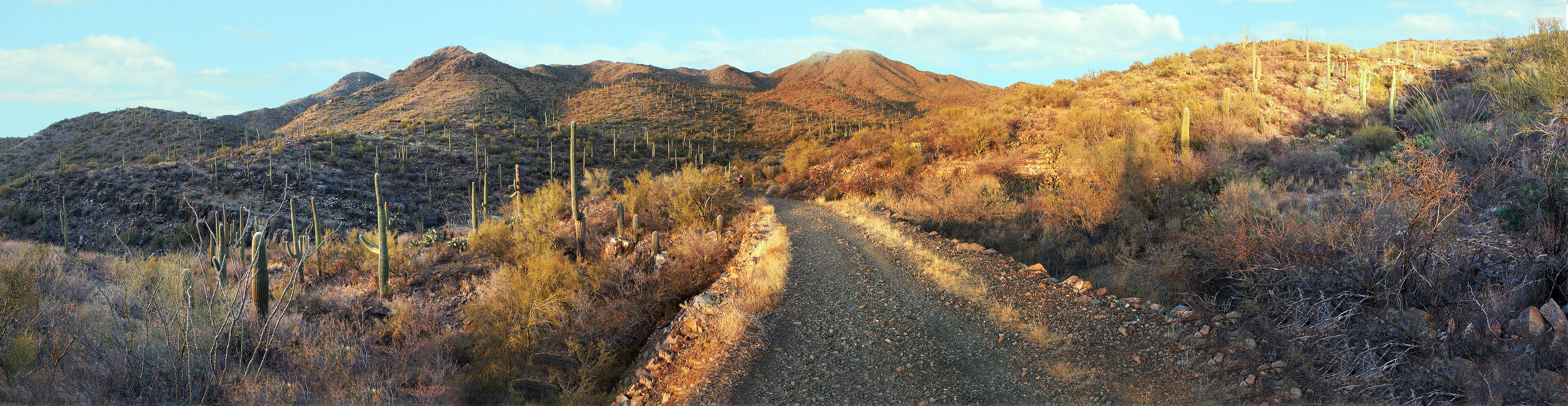 Saguaro National Park, Arizona, USA. Photo by Hugh Mason